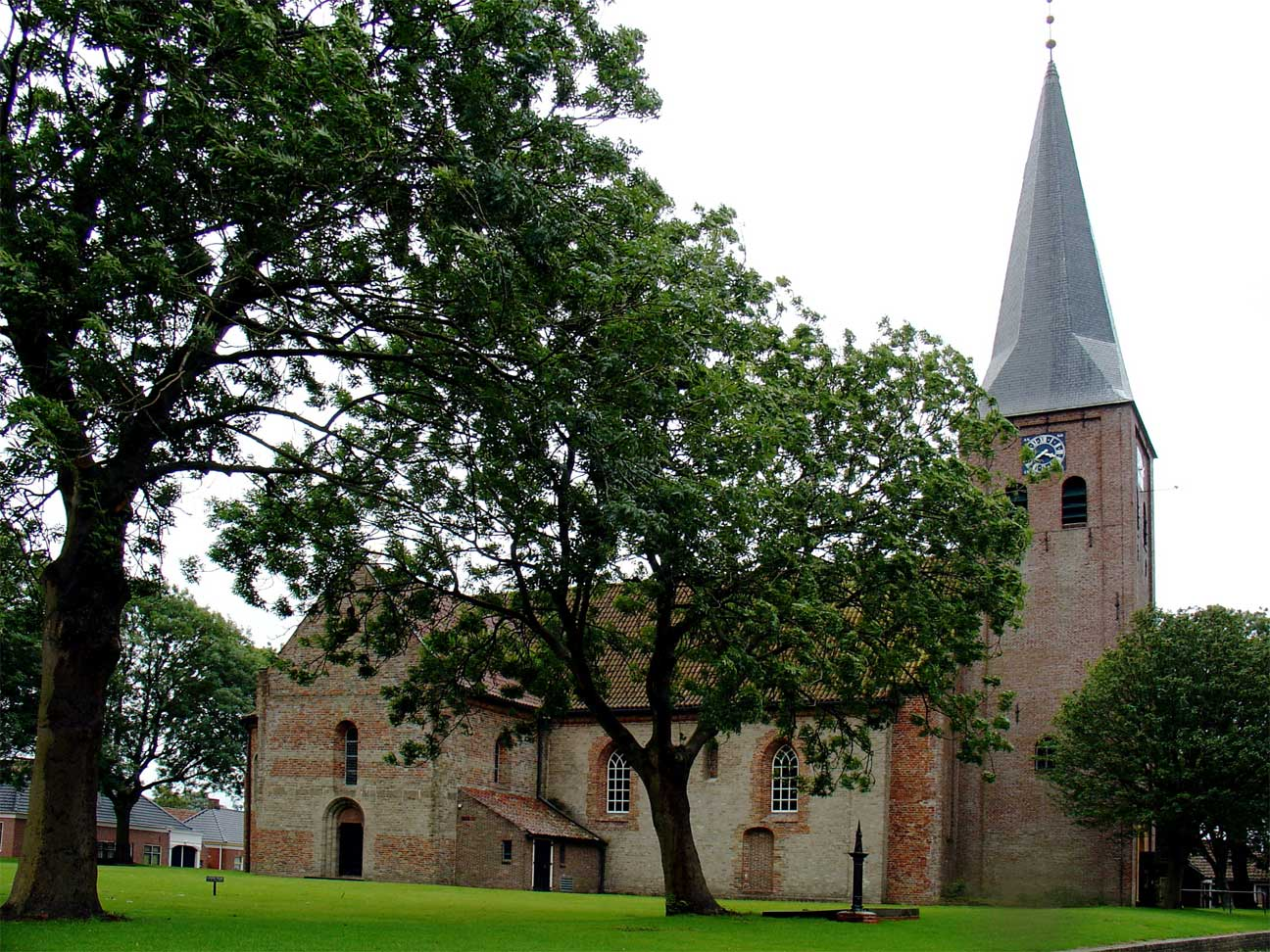 Church of Leens